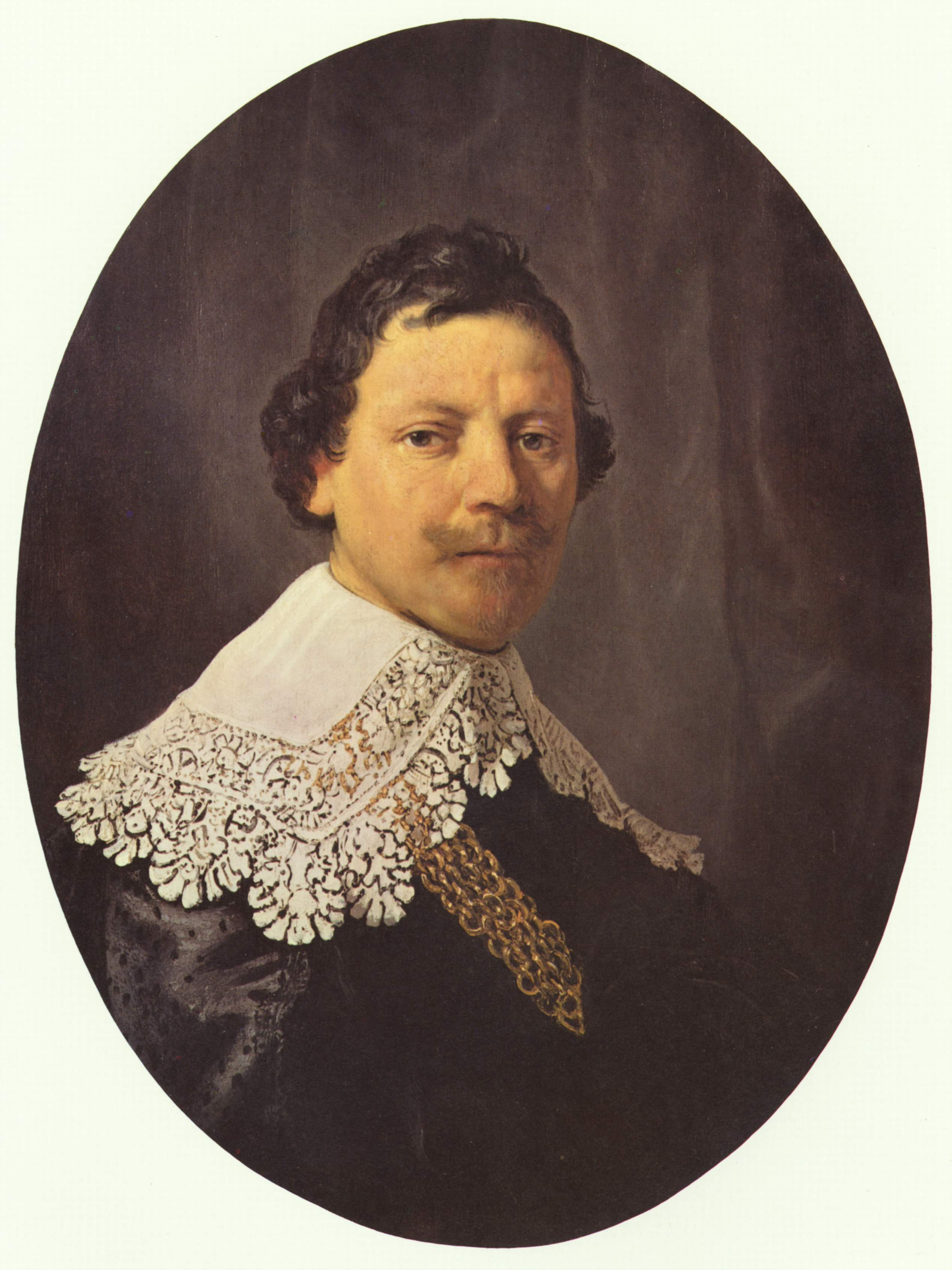 Portrait of Philips Lucasz. Pendant of File:Rembrandt 230.jpg